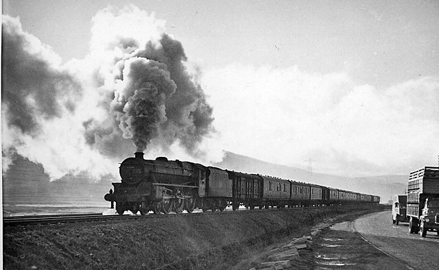 Nearing Beattock Summit from the north. View NW from the A74, towards Elvanfoot, Carstairs and Glasgow; ex-Caledonian West Coast Main Line, Carlisle - Carstairs - Glasgow/Edinburgh. The train is an Up parcels, headed by Stanier Class 5 4-6-0 No. 45018. The railway and road are here at over 1,000 feet just below Beattock Summit. The location is desolate and rain/wind-swept, but 'enlivened' by the trains on the railway and the lorries that choked the A74 before - ?since - its conversion to a Motorway. Over to the left is the valley of the Clyde Burn, which drains into the River Clyde.